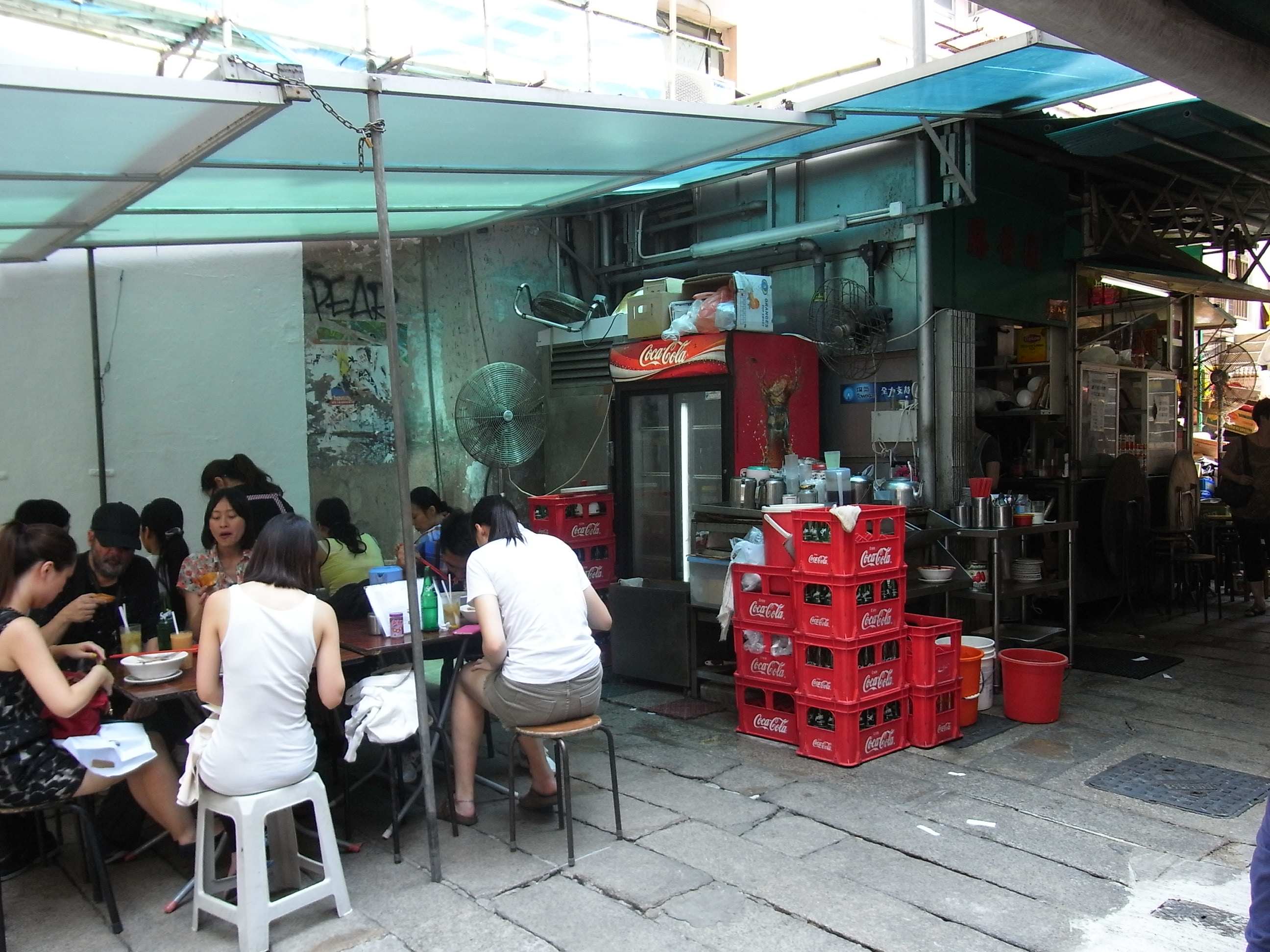 Mee Lun Street, Sheung Wan, Hong Kong